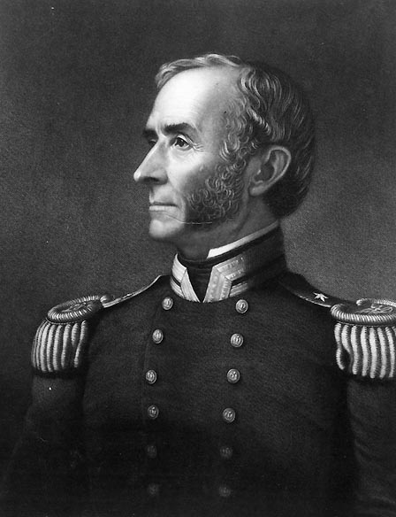 Removed caption read: Photo # NH 50663 Commodore David Conner, USN